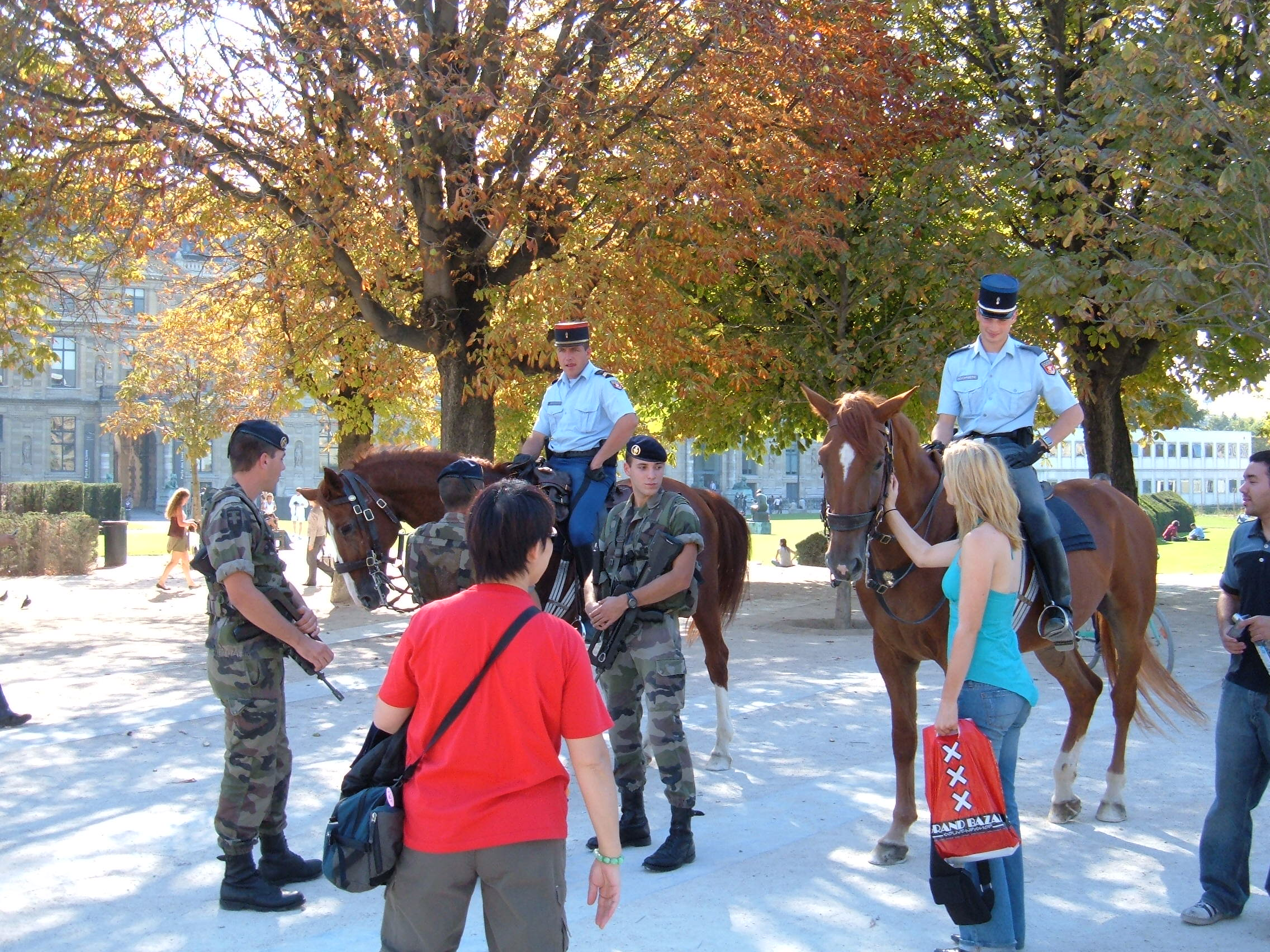 French soldiers and police near the Place du Carrousel in Paris.